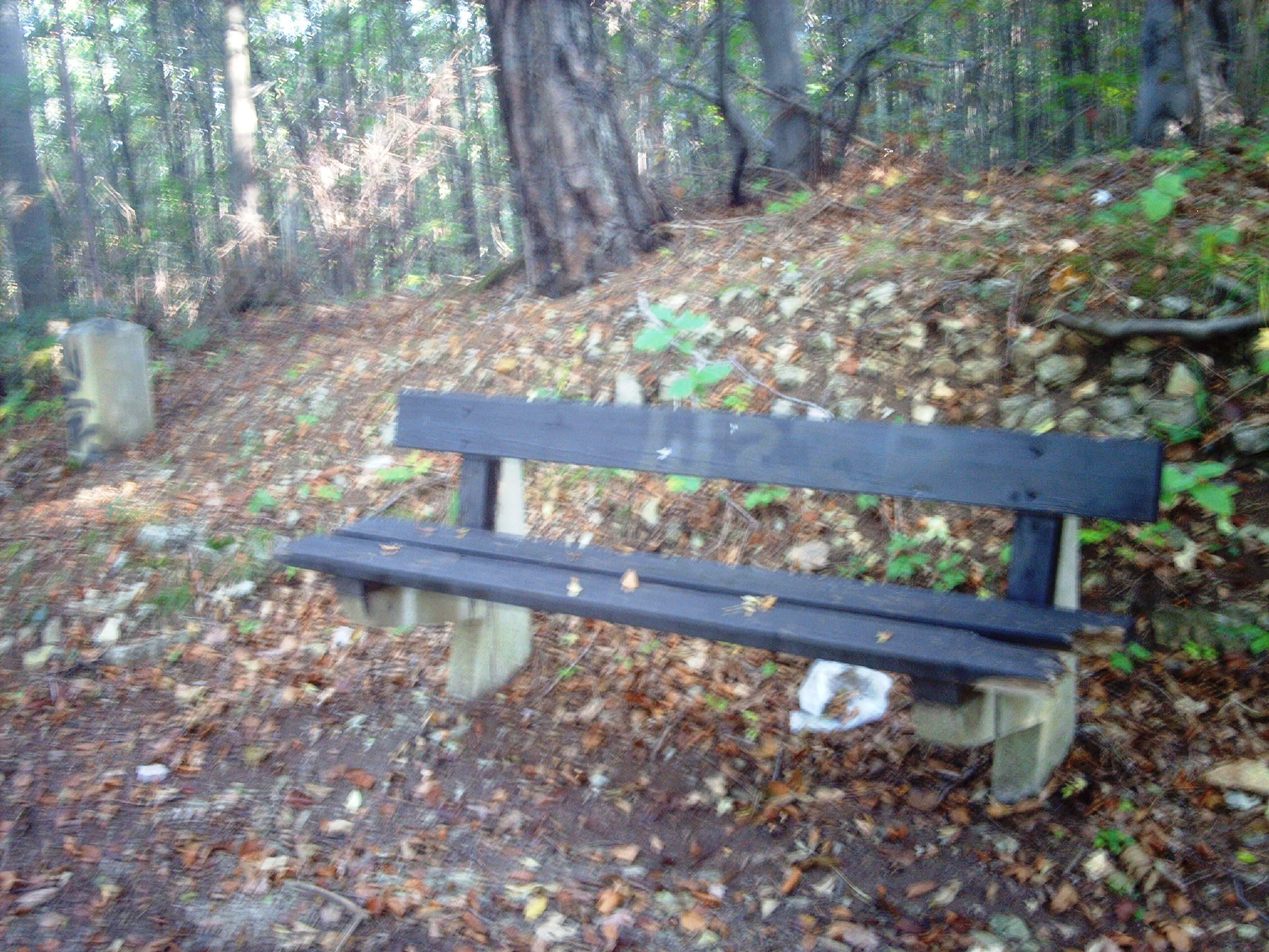 Alexisstein Alexisruhe Arnstadt 1